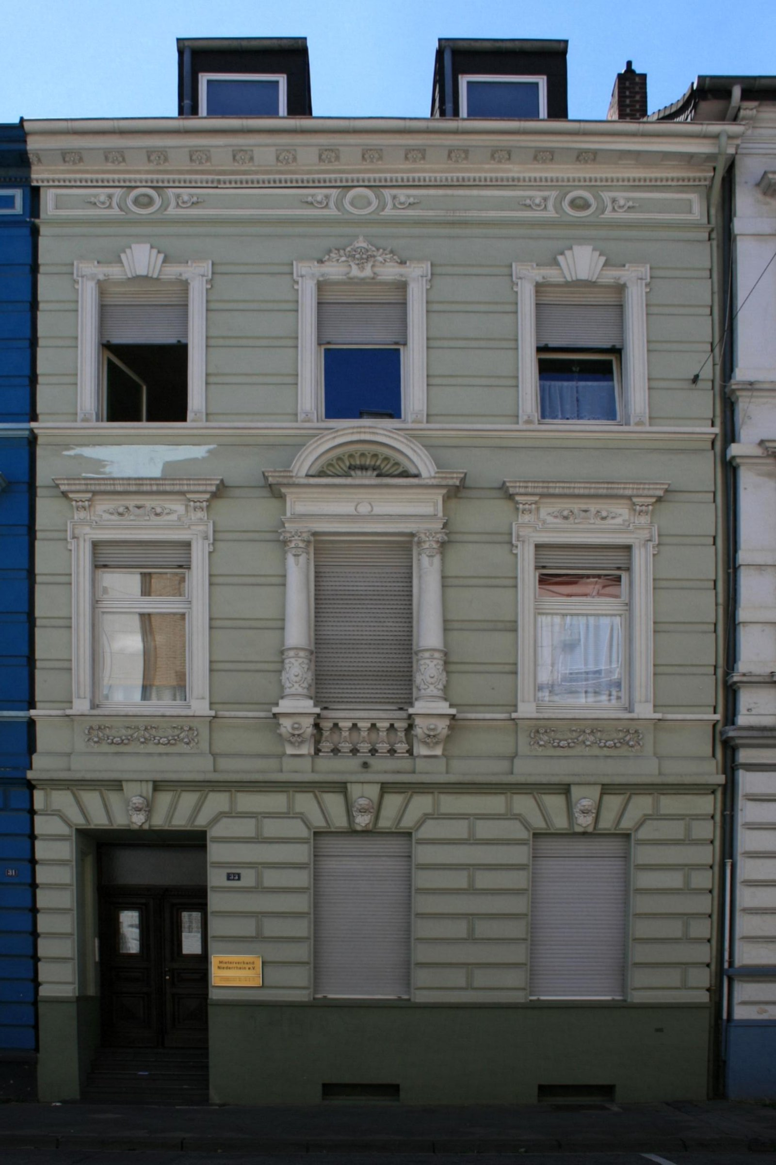 Cultural heritage monument No. H 037 in Mönchengladbach